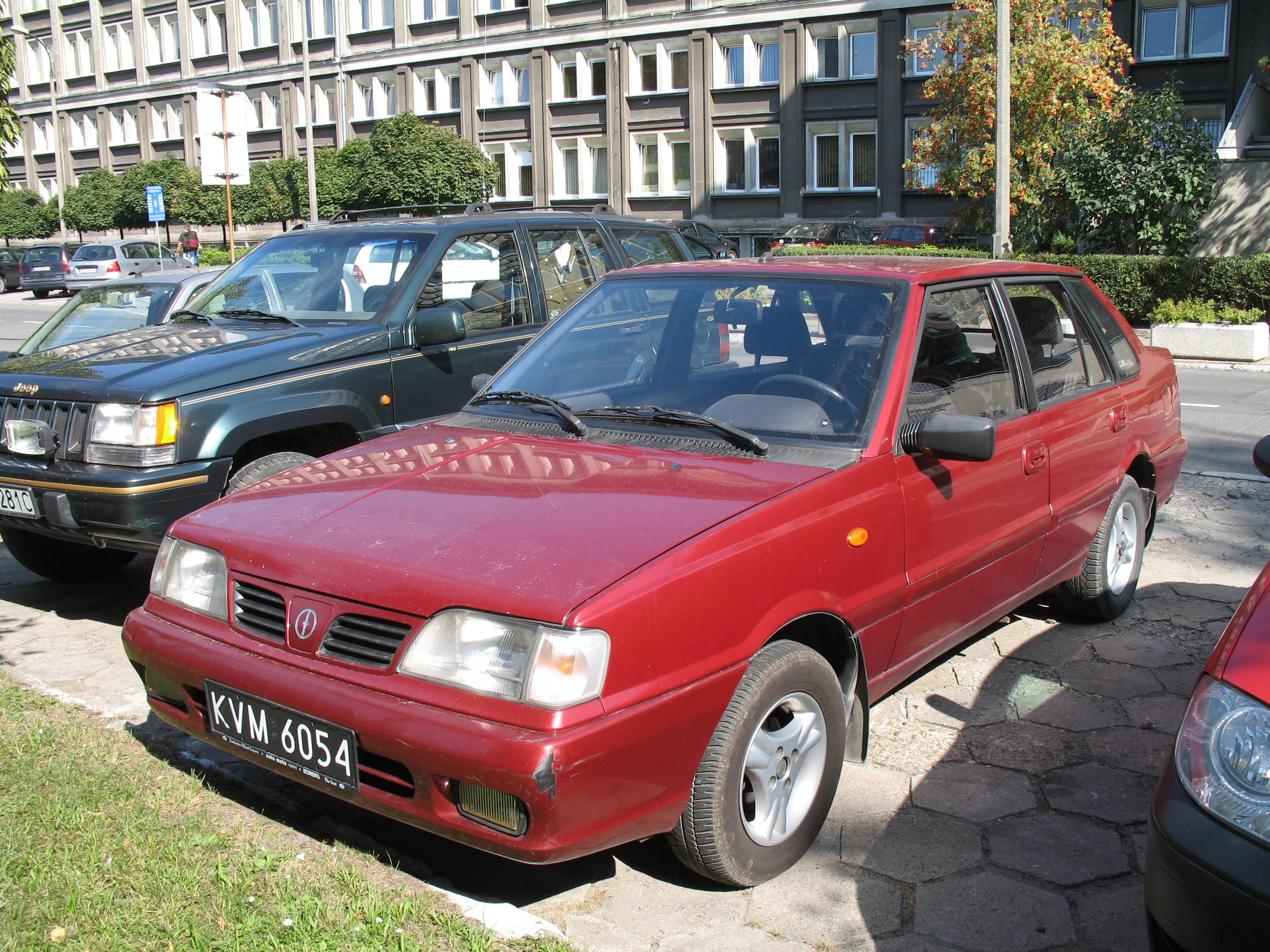 Daewoo-FSO Polonez Atu Plus 1.6 GSI multipoint iniection car in Kraków, Poland.